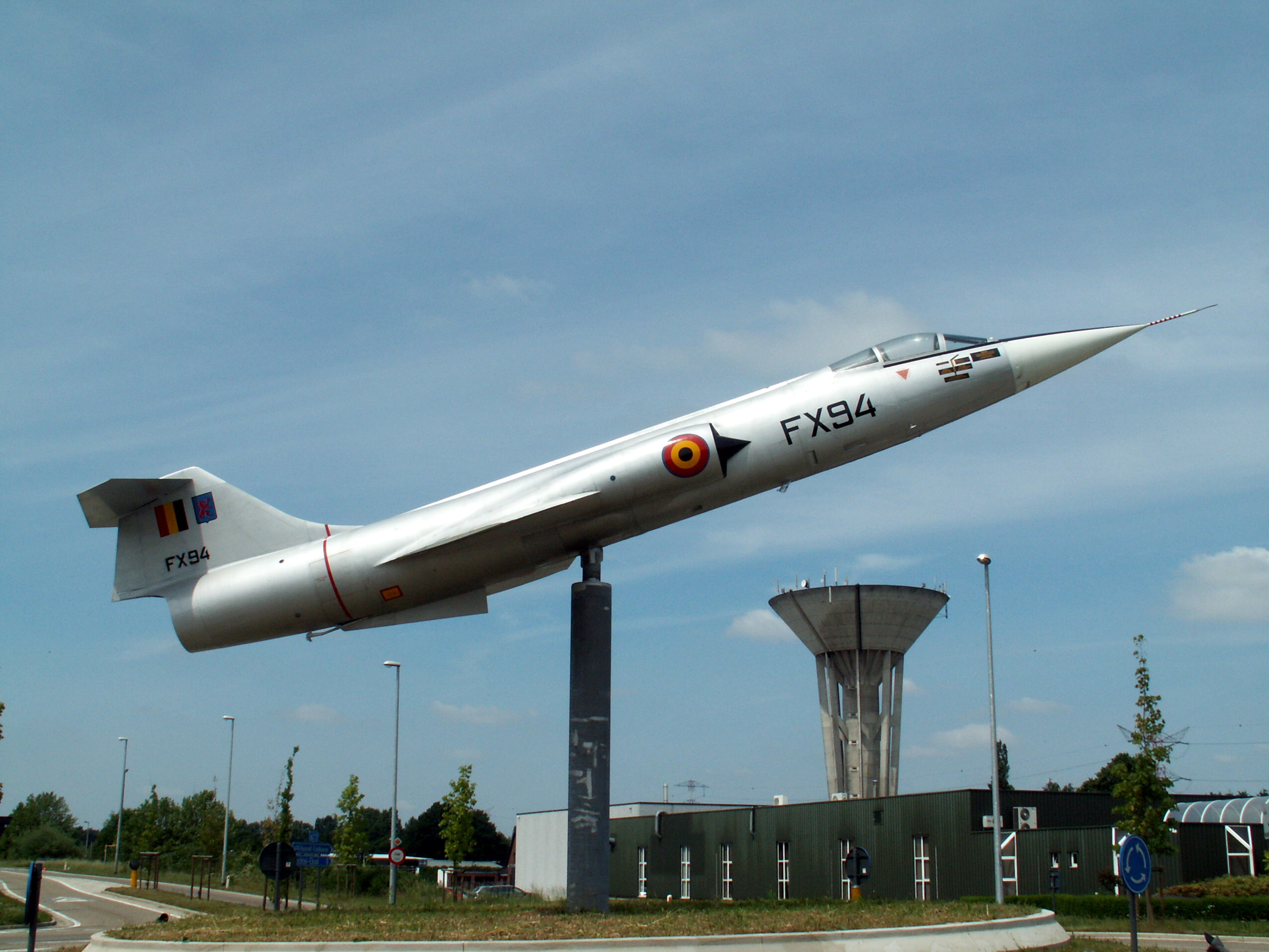 Photographed at a Spottersday 2005 at Kleine Brogel. Belgium Air Force